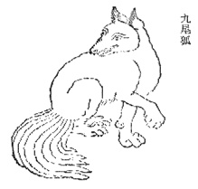 Nine tails fox, mythical Chinese creature, from the Qing edition of the Shanhaijing.